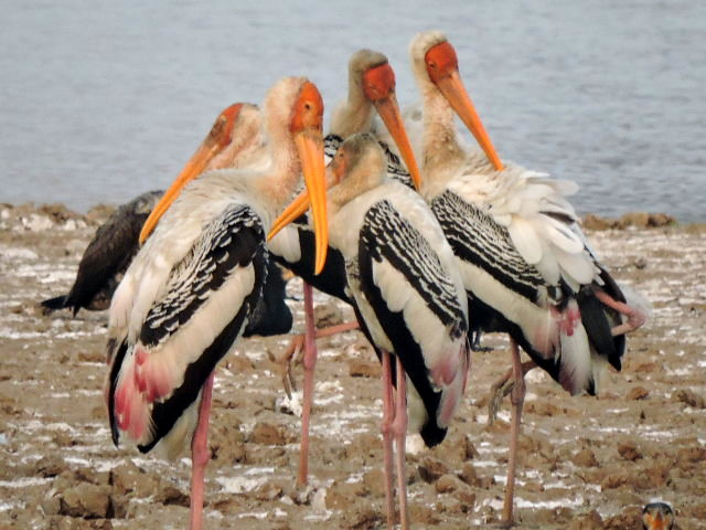 Painted stork ,Motemajra pond,near Mohali, Punjab, India